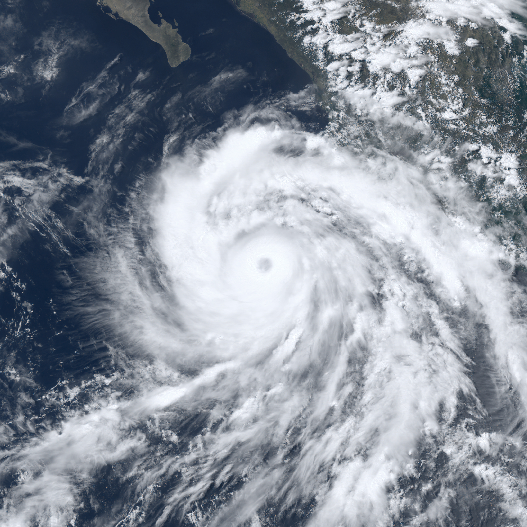 Hurricane Bud in the Eastern Pacific on June 11, 2018 at 19:50 UTC. At the time, Bud was a major hurricane with winds of 105 knots.